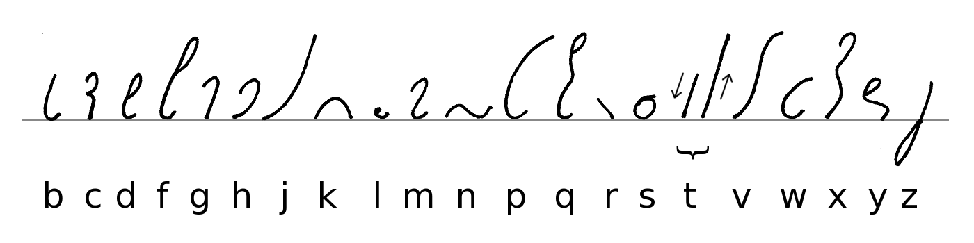 Consonants signs of the German shorthand system Deutsche Einheitskurzschrift. Based on the information in Christian Johnen's book "Allgemeine Geschichte der Kurzschrift", 4th edition, 1940, p. 197.